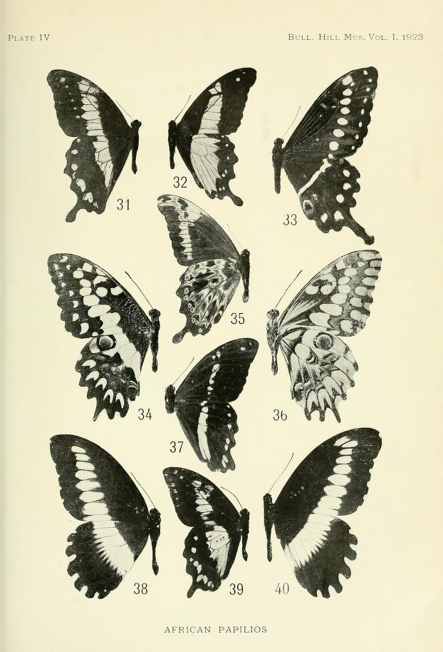 BulletinHillMuseumVolume1PlateIV Text see File:BulletinHillMuseumVolume1PlateIVtext.jpg 31. Papilio oribazus Boisduval, 1836 32, 35. Papilio charopus Westwood, 1843 33. Papilio menestheus Drury, 1773 34, 36. Papilio grosesmithi Rothschild, 1926 37. Papilio nireus Linnaeus, 1758 38. Papilio cyproeofila Butler, 1868 39. Papilio epiphoba Boisduval, 1836 40. Papilio eypracofila Butler, 1868